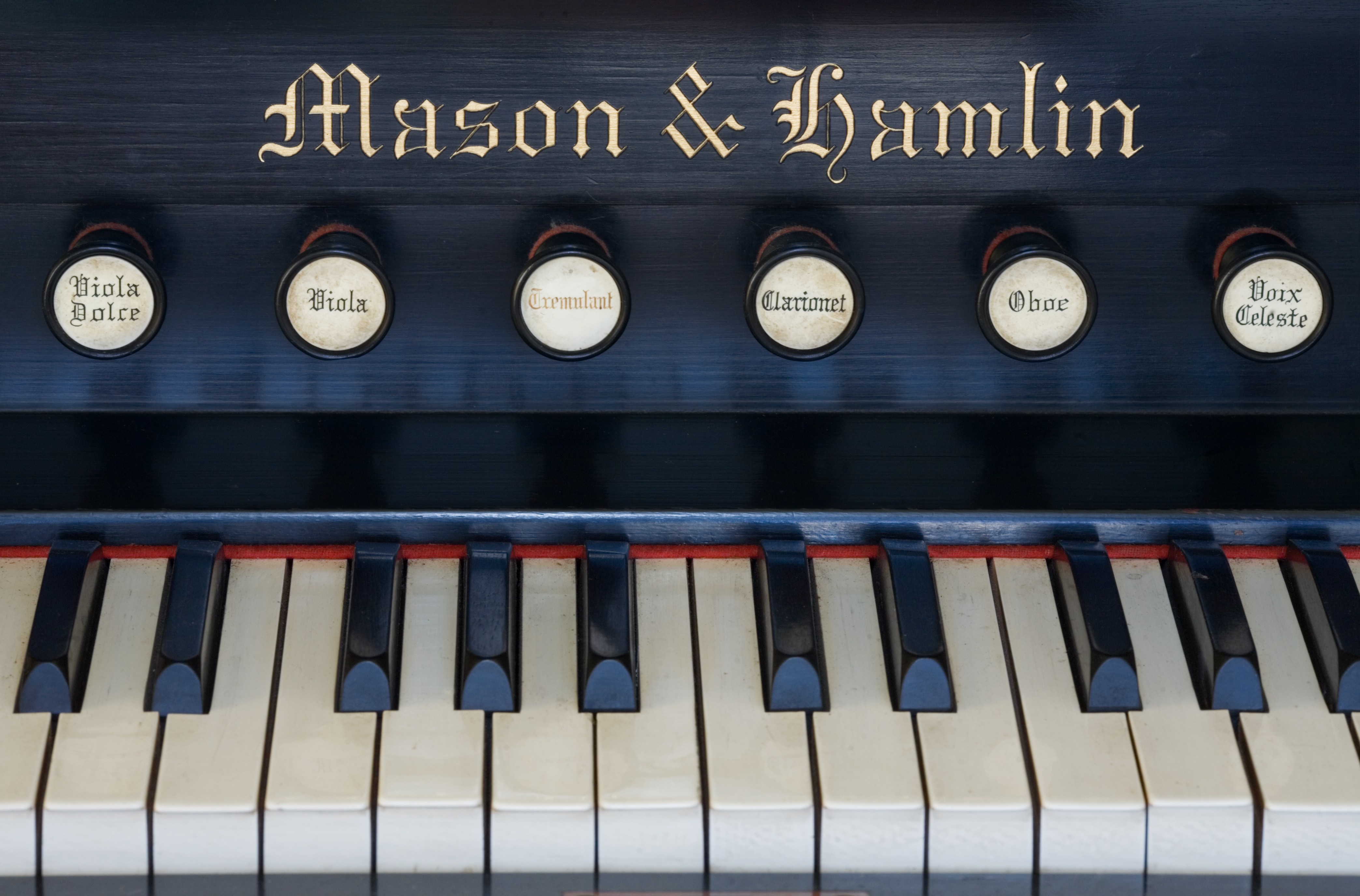 Mason & Hamlin organ keyboard. New Zealand 2006